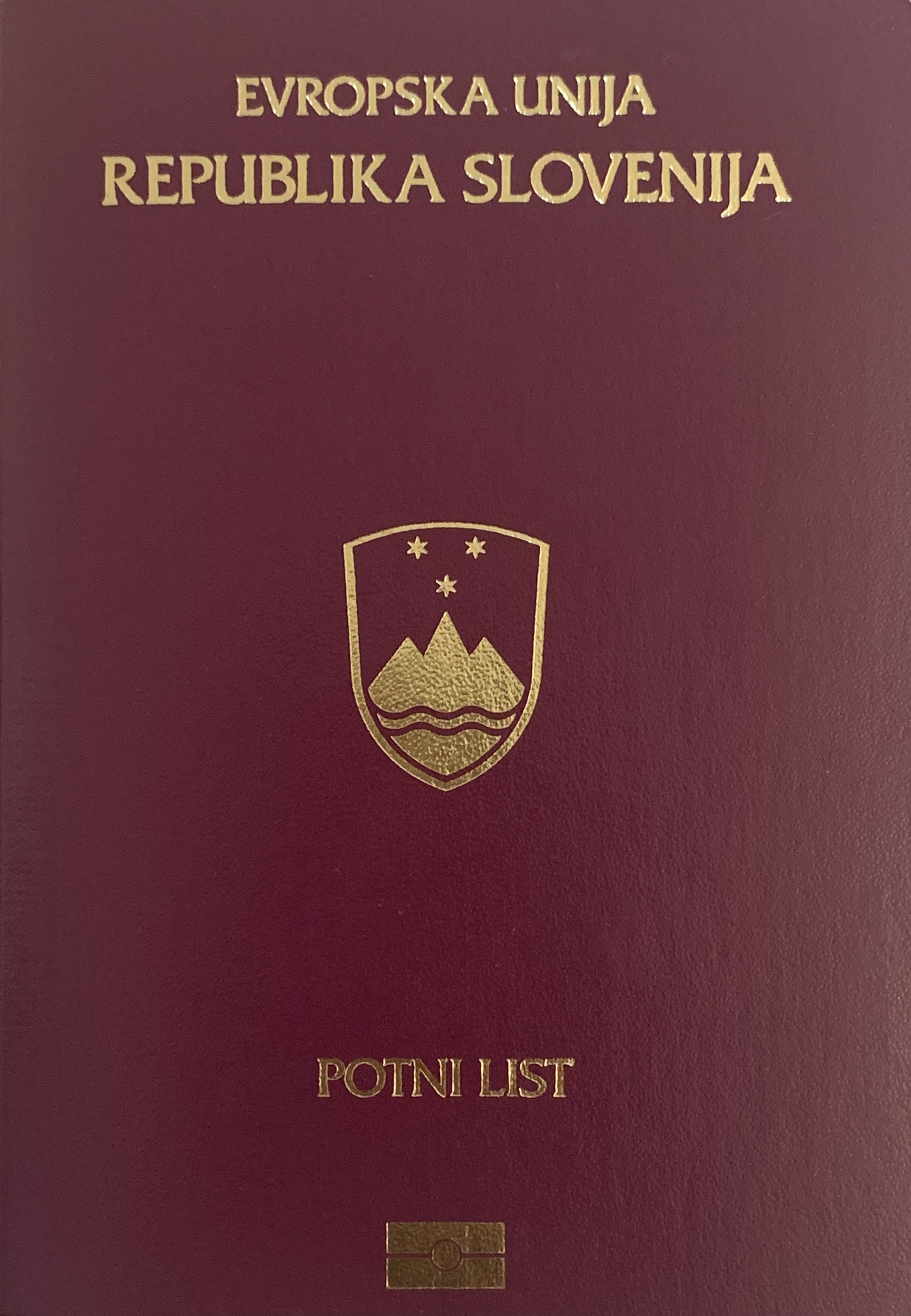 The front cover of a contemporary Slovenian biometric passport